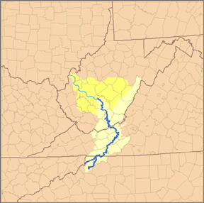 This is a map of the New River watershed. I, Pfly, created it based on USGS data.